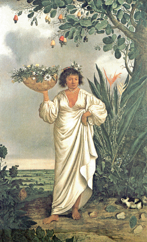 Mameluca Woman (with a cashew tree in the background).